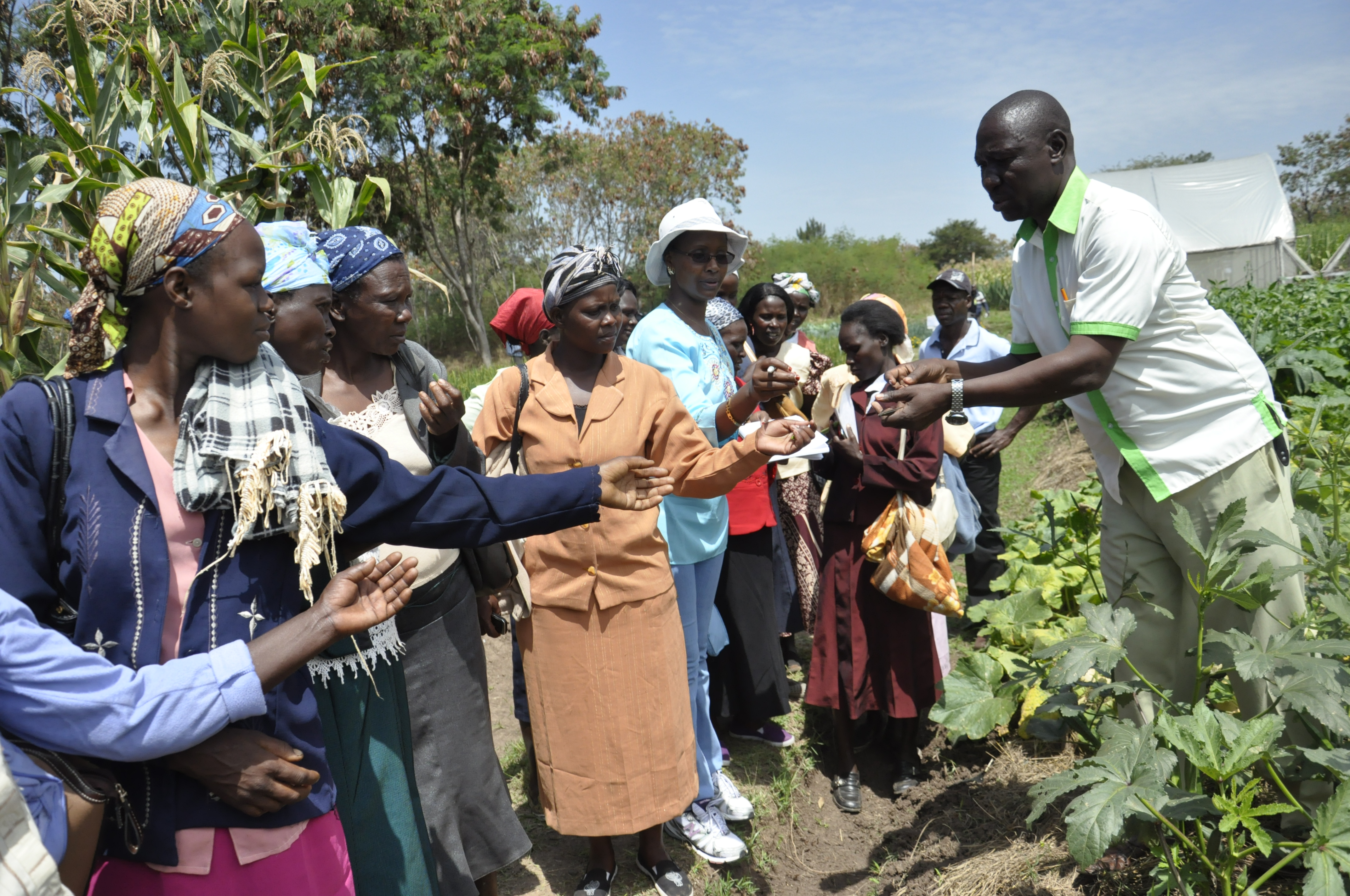 CCAFS East Africa together with partners facilitated the training of 130 women in the Nyando region on climate smart innovations. Focus areas included; new climate smart practices and agro-advisories, appropriate on farm tools and technologies and accessing microfinance and micro- insurance. The women interacted with a number of experts at the Agricultural Society of Kenya (ASK) Kisumu fair from 31 July to 3 August, 2013. Photo: V. Atakos (CCAFS) Read about our activities in East Africa.